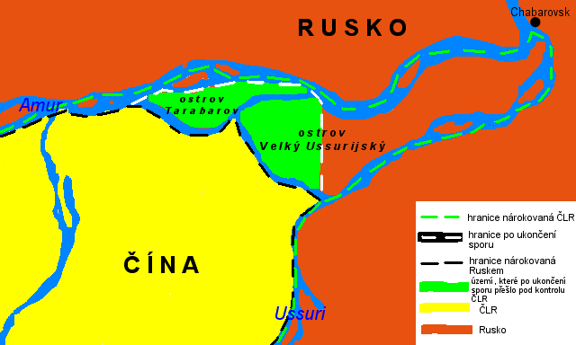 A map with erroneous rendering of the easternmost China–Russia border segment. Also misses adjacent islets. See e.g. File:Bolshoy Ussuriysky and Tarabarov RU.svg for comparison.